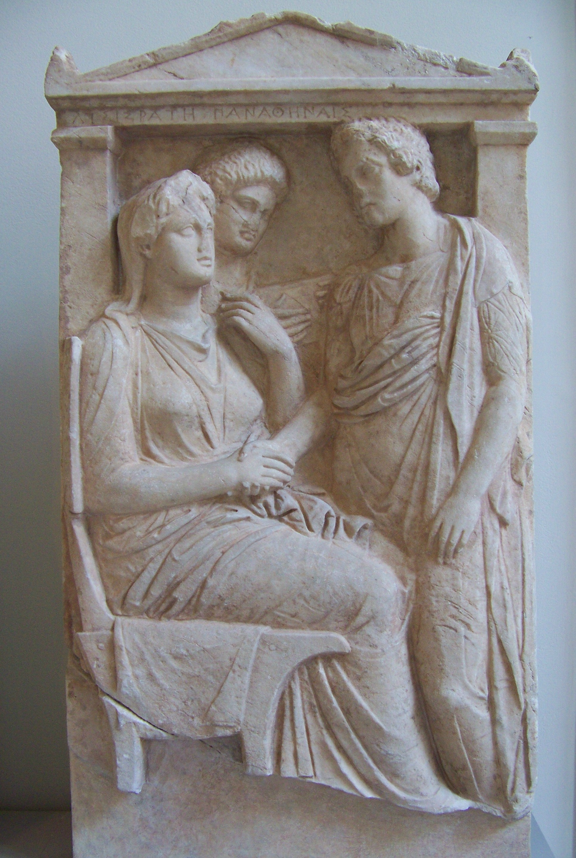 Marble Stele of Lysistrate, ca. 350-325 BCE